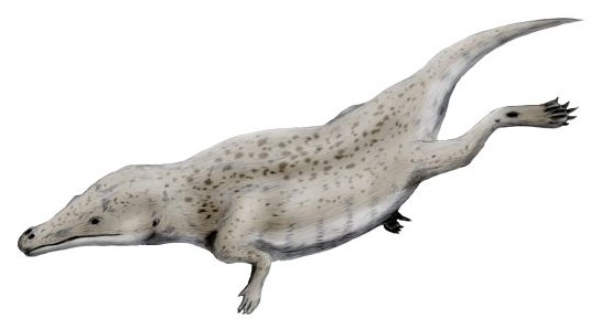 Maiacetus